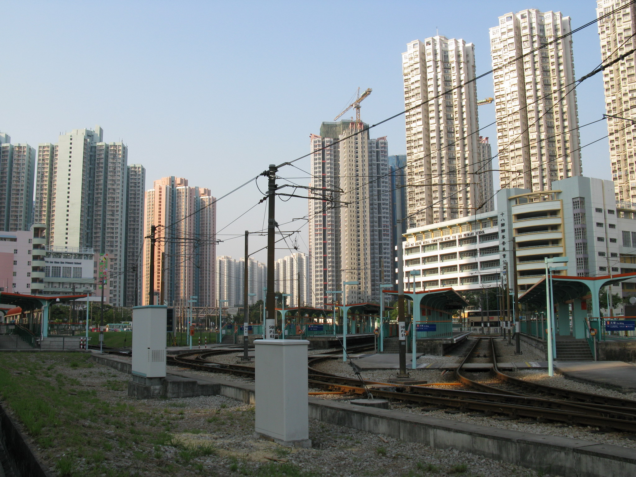 輕鐵 天榮站 Tin Wing Stop, Light Rail